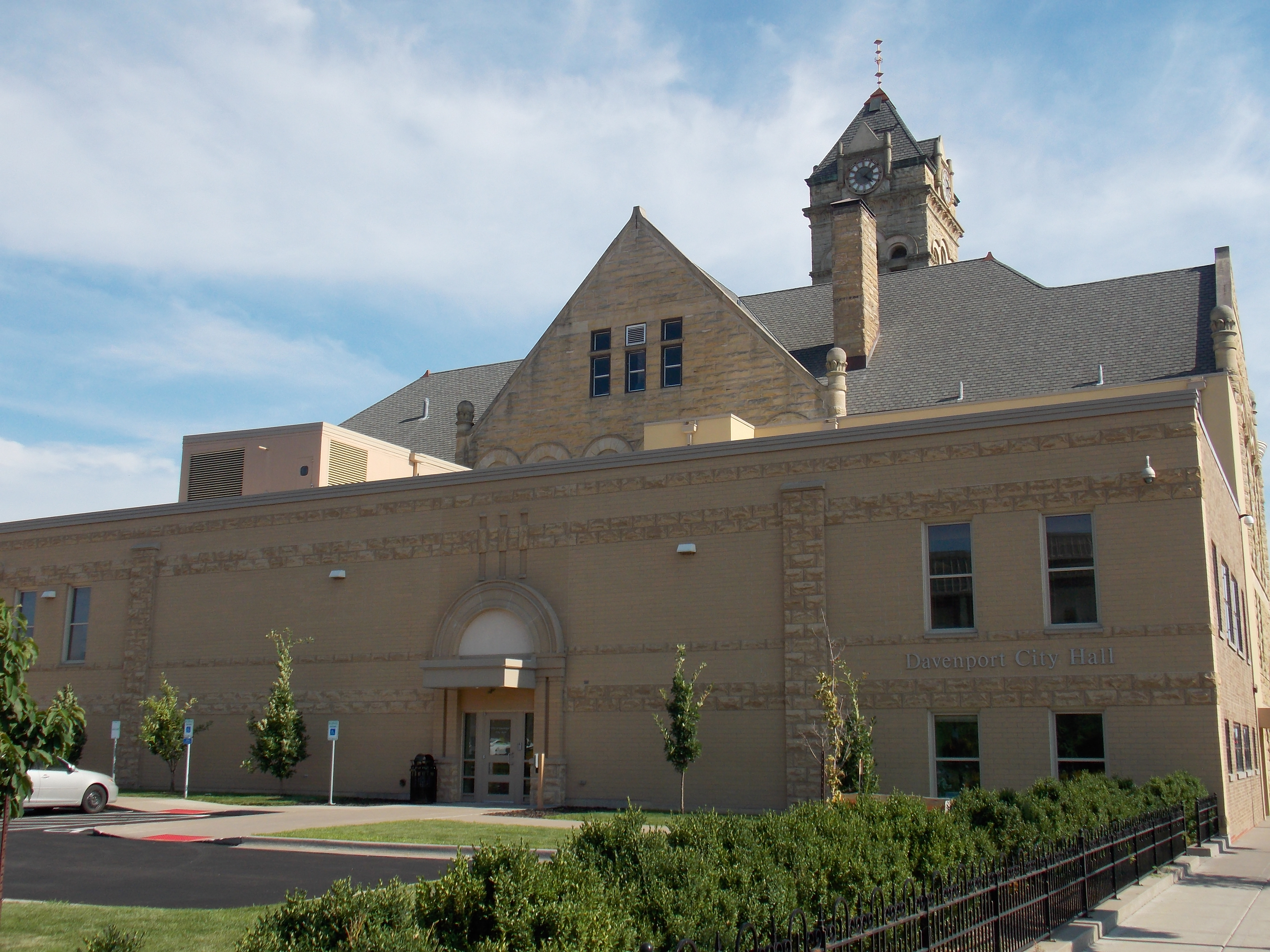 The backside of City Hall in Davenport, Iowa